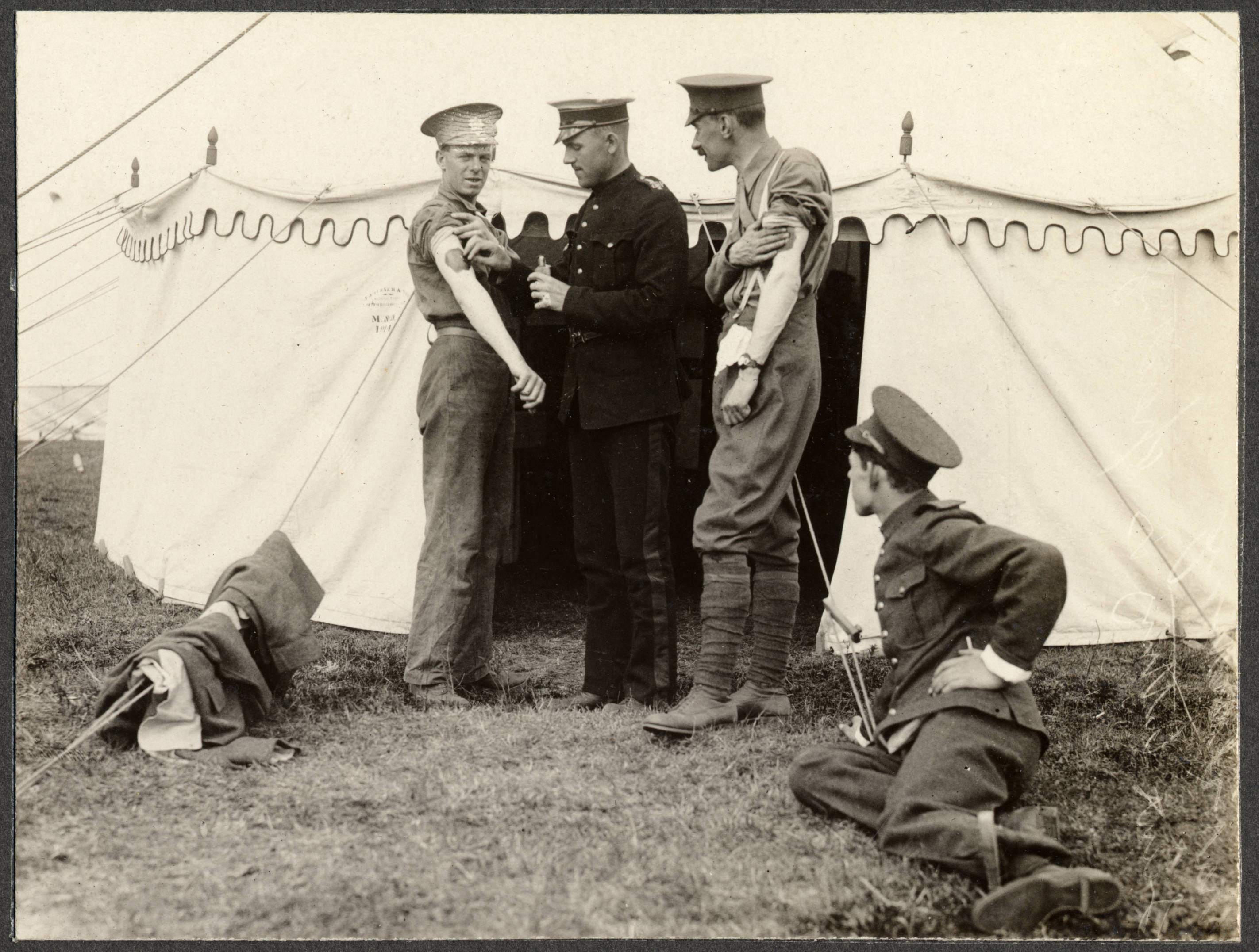 Item is a photograph taken by J. A. Millar from an album depicting scenes of the Canadian Expeditionary Force at Valcartier Camp, at Quebec, and at Gaspe Harbour immediately prior to sailing to Britain in 1914. Millar was a staff photographer of the Montreal Daily Star and produced the album in 1915.